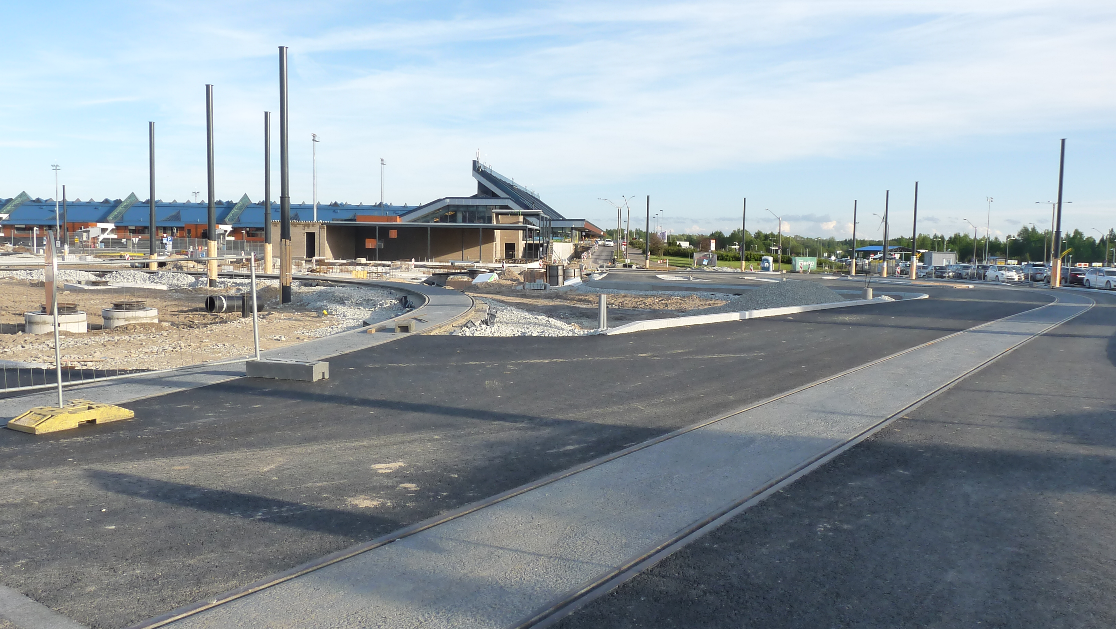 Tram track construction in Tallinn, Estonia